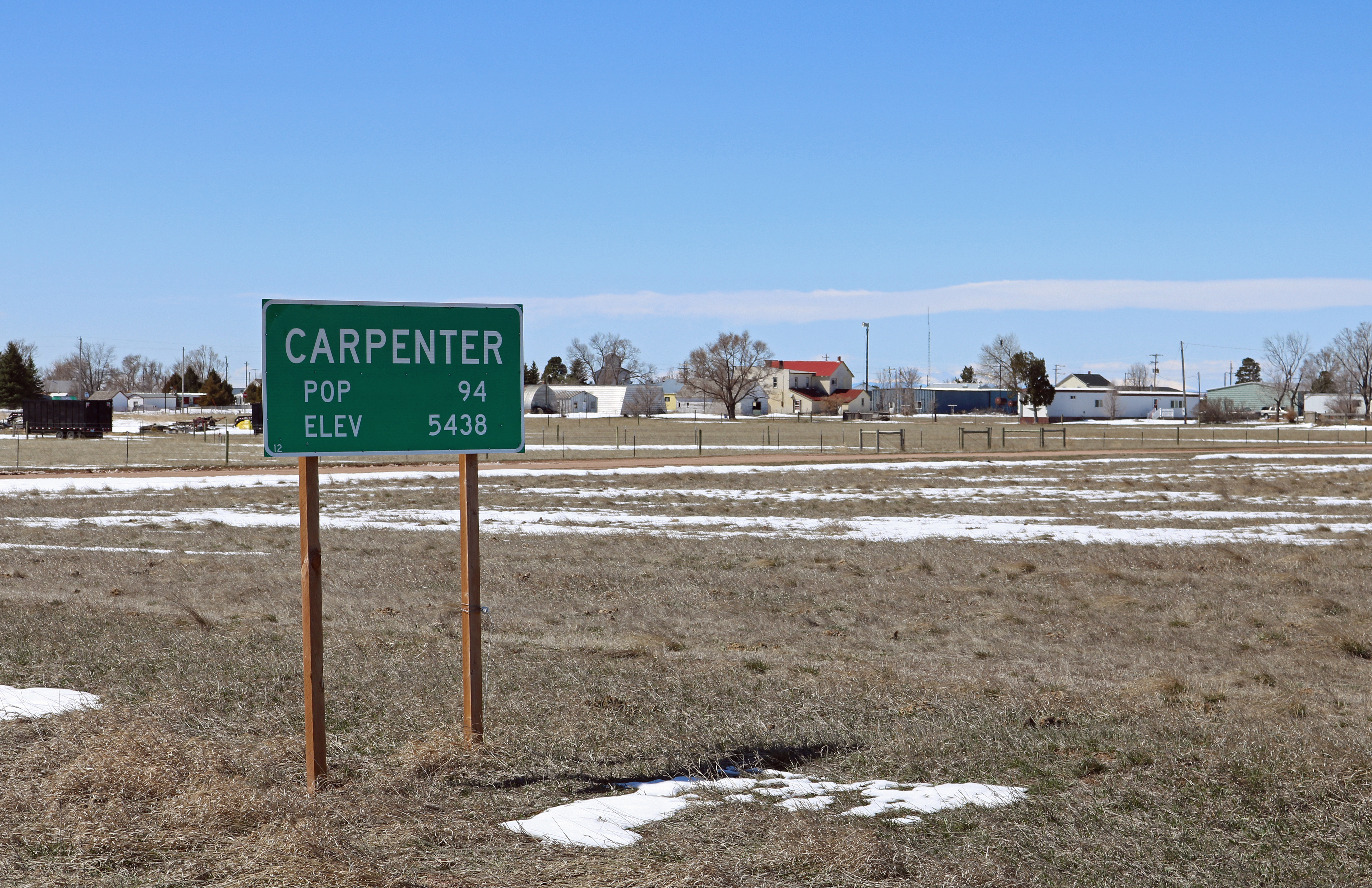 A view of the town of Carpenter, Wyoming.